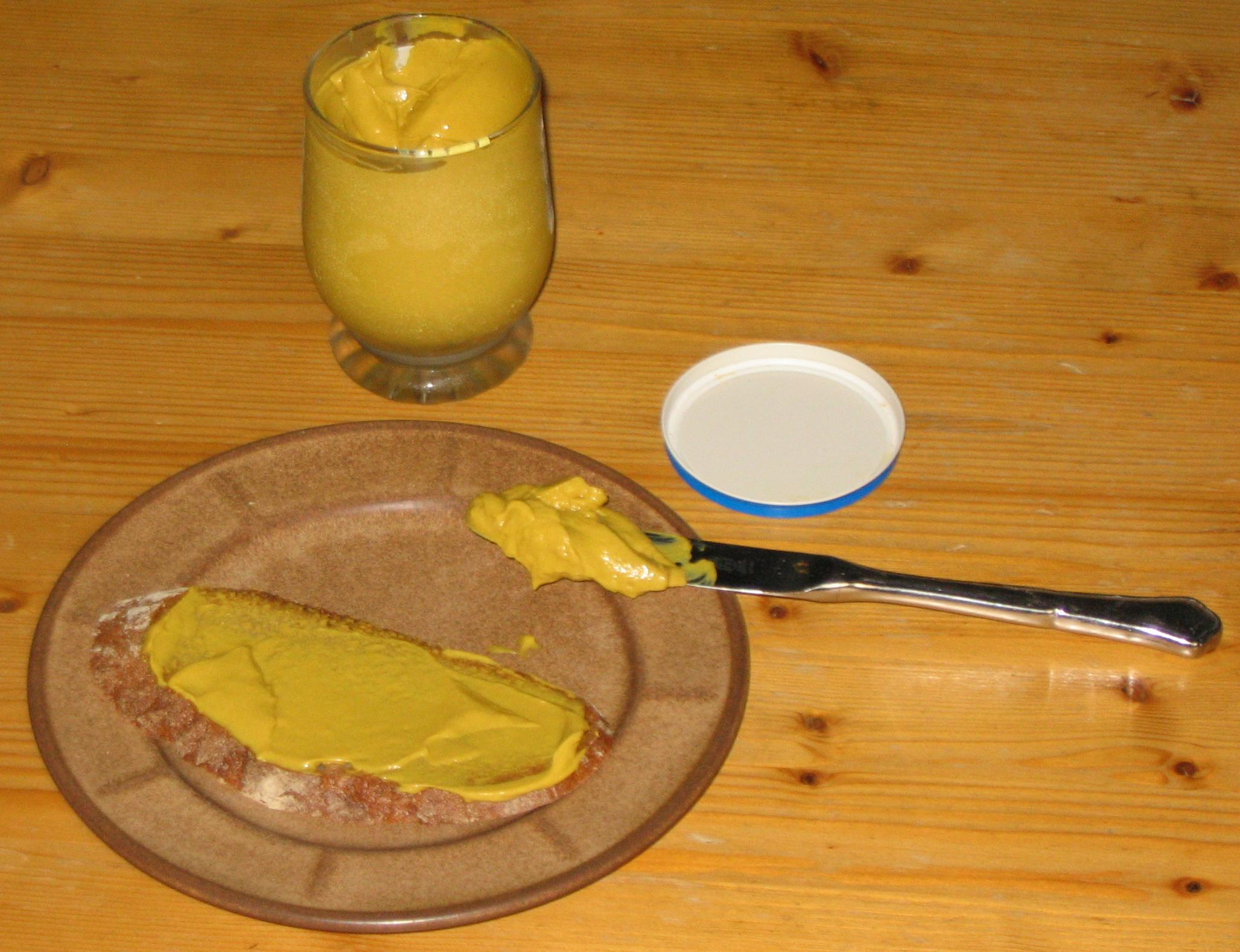 Bread with mustard. Photo taken on July 29, 2005. Photo by User:Jarlhelm